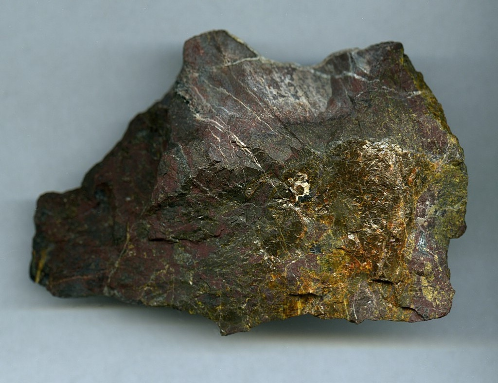 Bauranoite (Specimen size: 9.5 x 6 x 3.5 cm) Locality: Oktyabr'skoe Mo-U Deposit, Strel'tsovskoe Mo-U ore field, Krasnokamensk, Chitinskaya Oblast', Transbaikalia (Zabaykalye), Eastern-Siberian Region, Russia Original description: Massive orange Bauranoite pseudomorphoses after Pitchblende veinlets within red rhiolite from the type locality. Specimen size is 9.5x6x3.5 cm and its radioactivity is 5150 μR/h from this side. Collected by Larisa N. Belova in early 70th. Pavel M. Kartashov collection and photo.